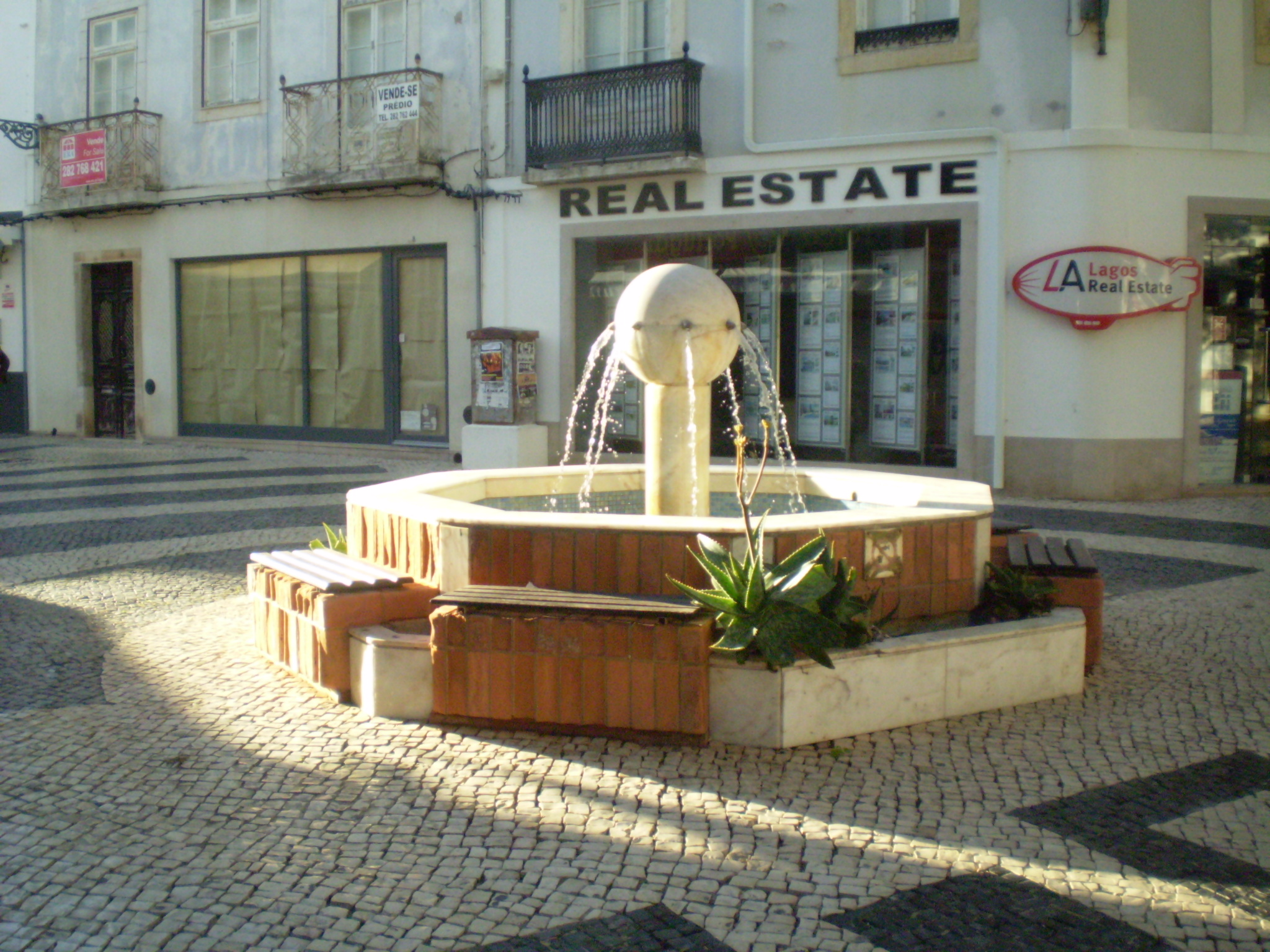 Oito Bicas Fountain located on Rua Garrett in the city of Lagos, Algarve, Portugal